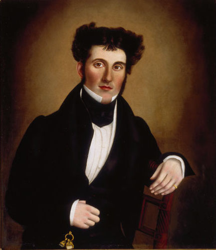 Portrait of Nicol Hugh Baird, engineer and surveyor in Scotland, Russia and Canada. Main surveyor of the Trent-Severn Waterway.